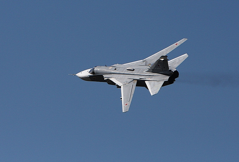 The active stage of the Russian-Indian exercise Indra 2016 finished at the Sergeyevsky in the Primorsky Krai. The joint grouping of the Russian and Indian troops has practiced blocking and elimination of simulated illegal armed formations. A Russian tank company equipped with T-72B tanks, compounded motorized rifle and reconnaissance units on infantry fighting vehicles captured a place of arms in the assigned zone and eliminated simulated illegal armed formations supported by army aviation represented by Mi-8AMTSh, Ka-52 helicopters and Su-25 attack aircraft as well as by tube artillery, multiple rocket launch systems and mortars. At the exercise, two motorized rifle companies, a tank company, a platoon of flamethrower systems, as well as a mortar, howitzer and reactive artillery batteries, represented the Eastern MD. A motorized rifle battalion consisting of 250 people represented the Armed Forces of India. In total, the exercise involved participation of over 500 servicemen and up to 50 pieces of military hardware including combat vehicles, UAVs, as well as the army and reconnaissance aviation of the Eastern MD.